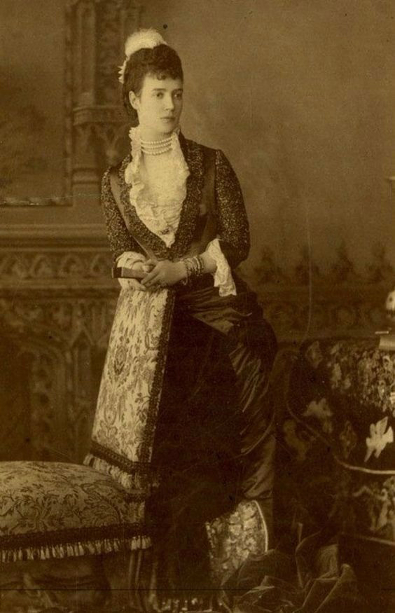 Empress Maria Feodorovna of Russia